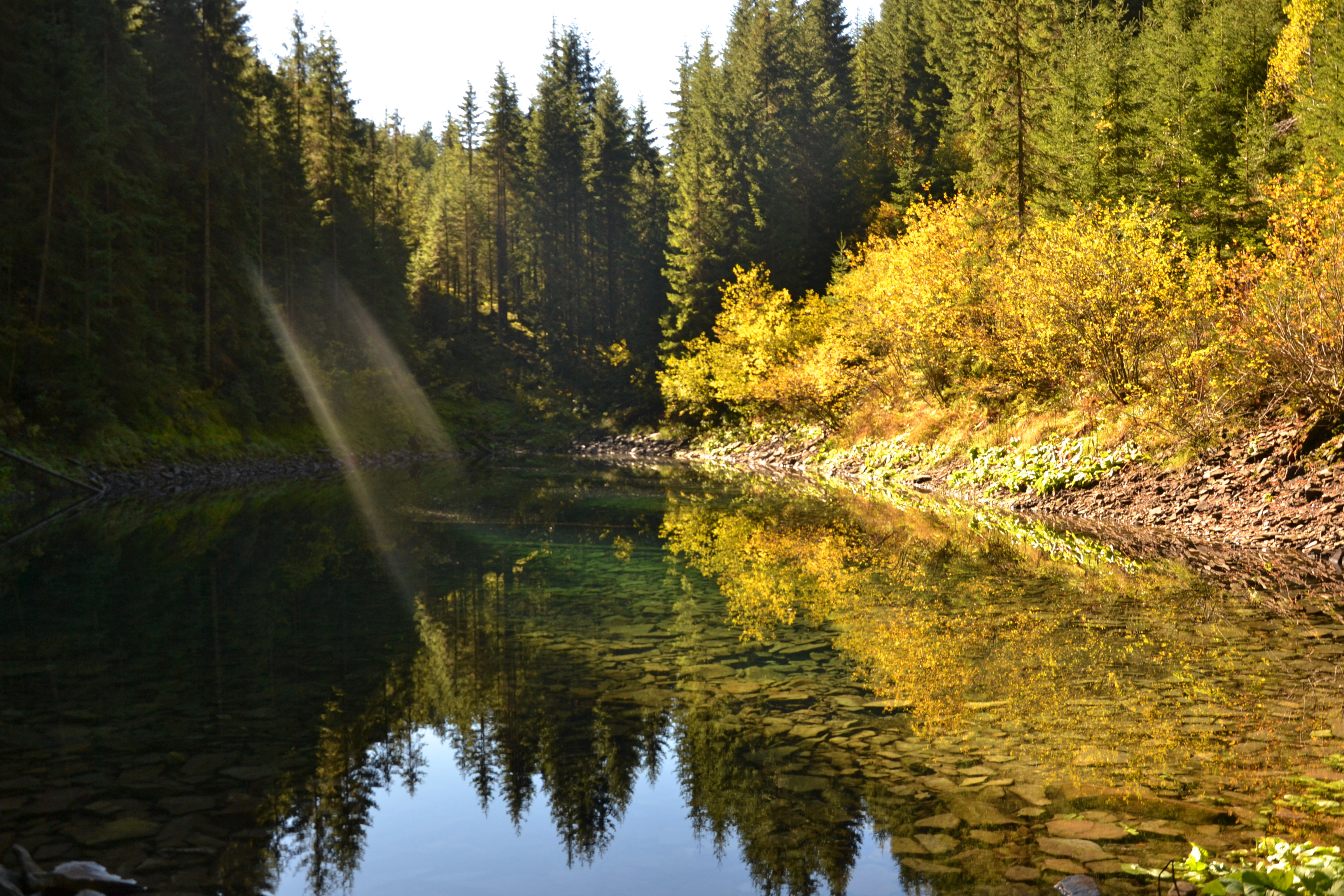 Lake Rosokhan